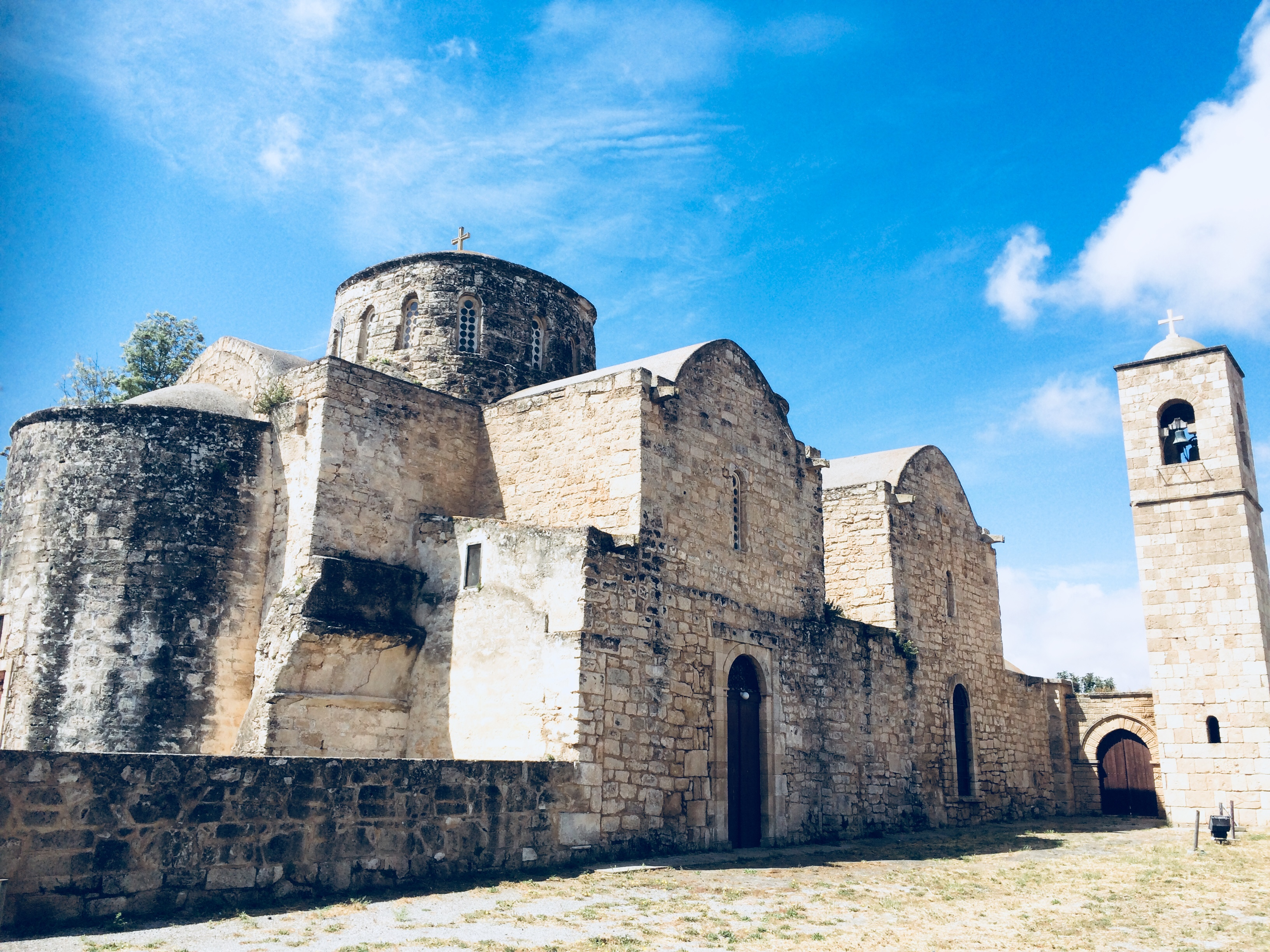 Byzantine monastery of Saint Varnavas